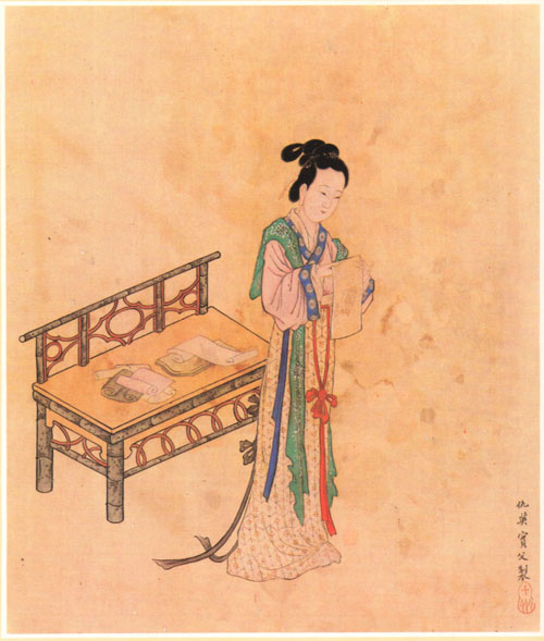 Xue Tao (simplified